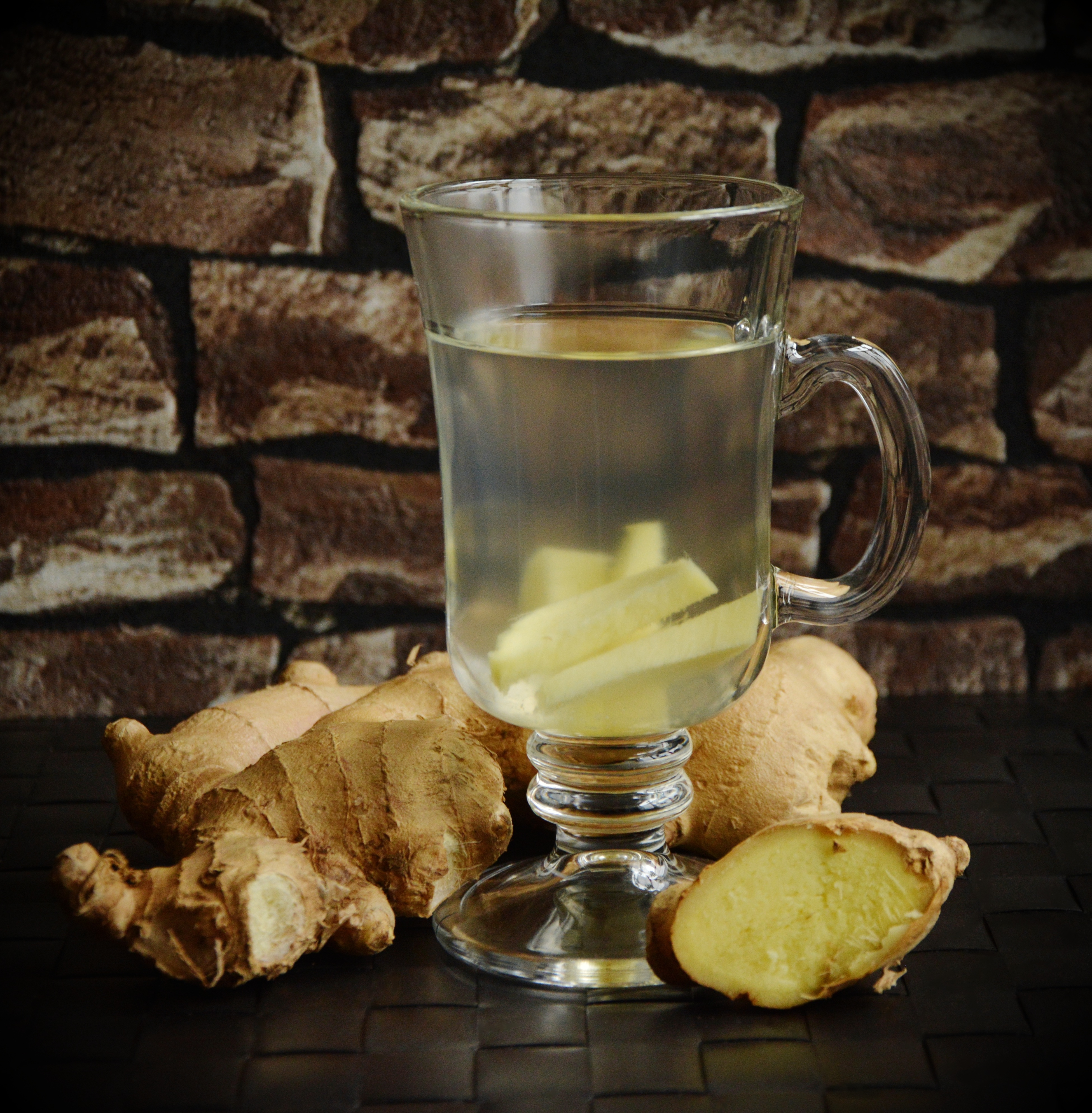 Ginger tea